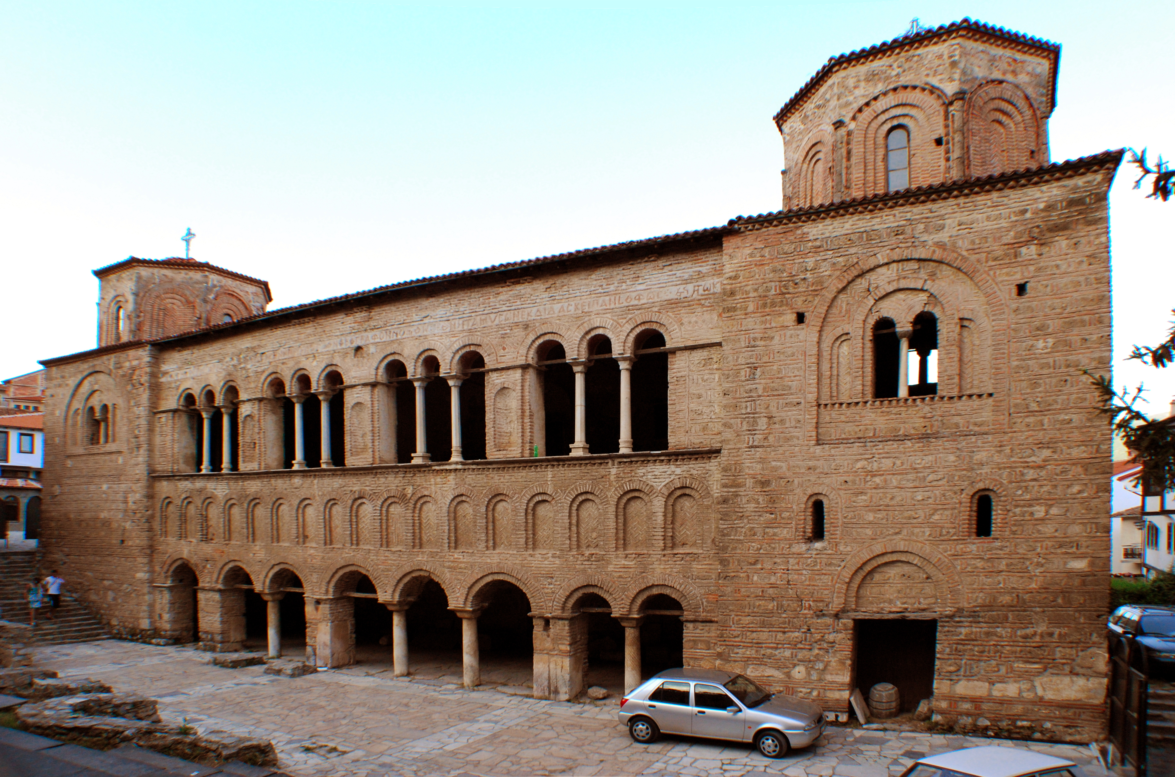 St. Sophia Church in Ohrid, Macedonia.